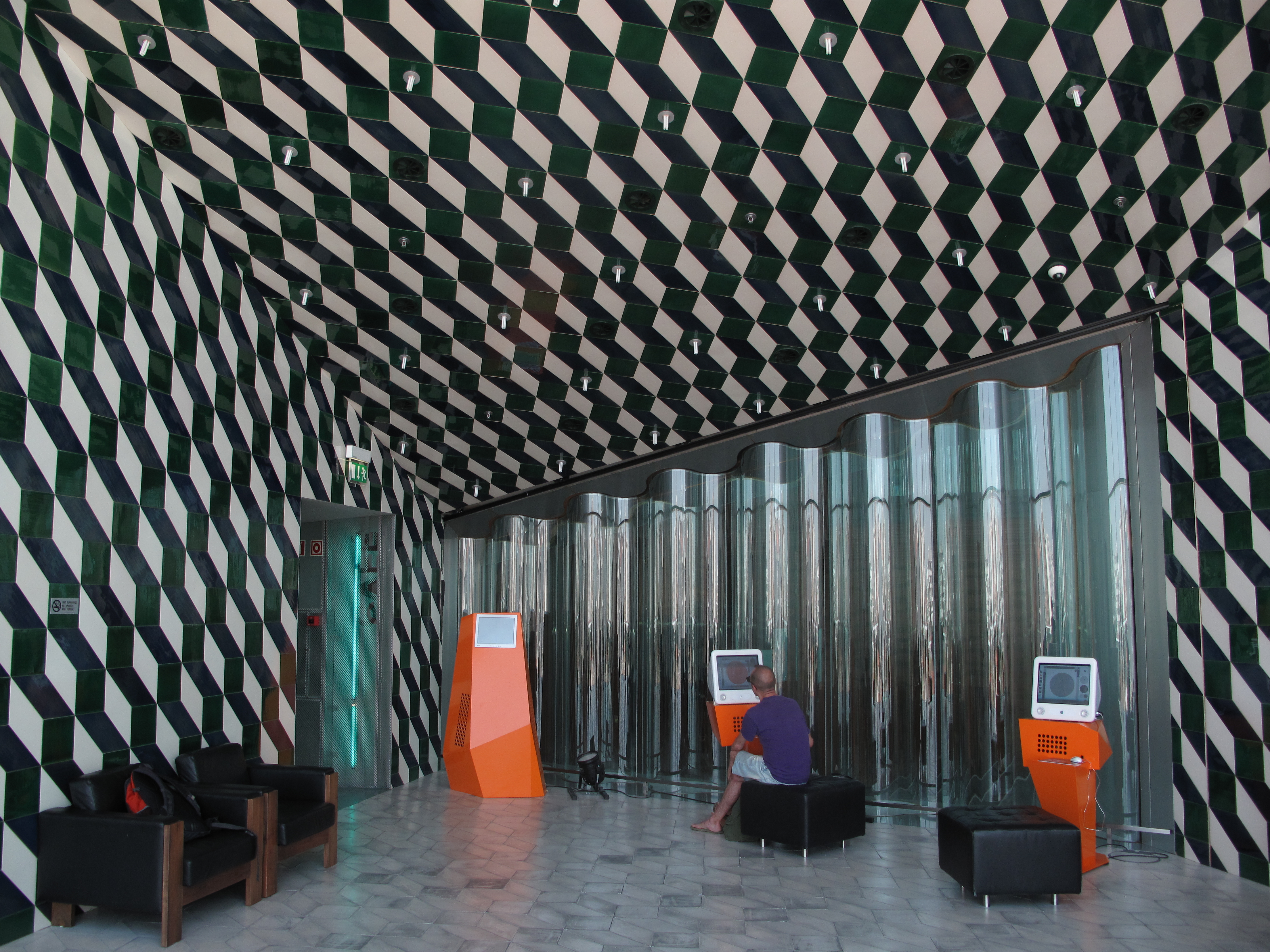 Interactive Room at Casa da Musica